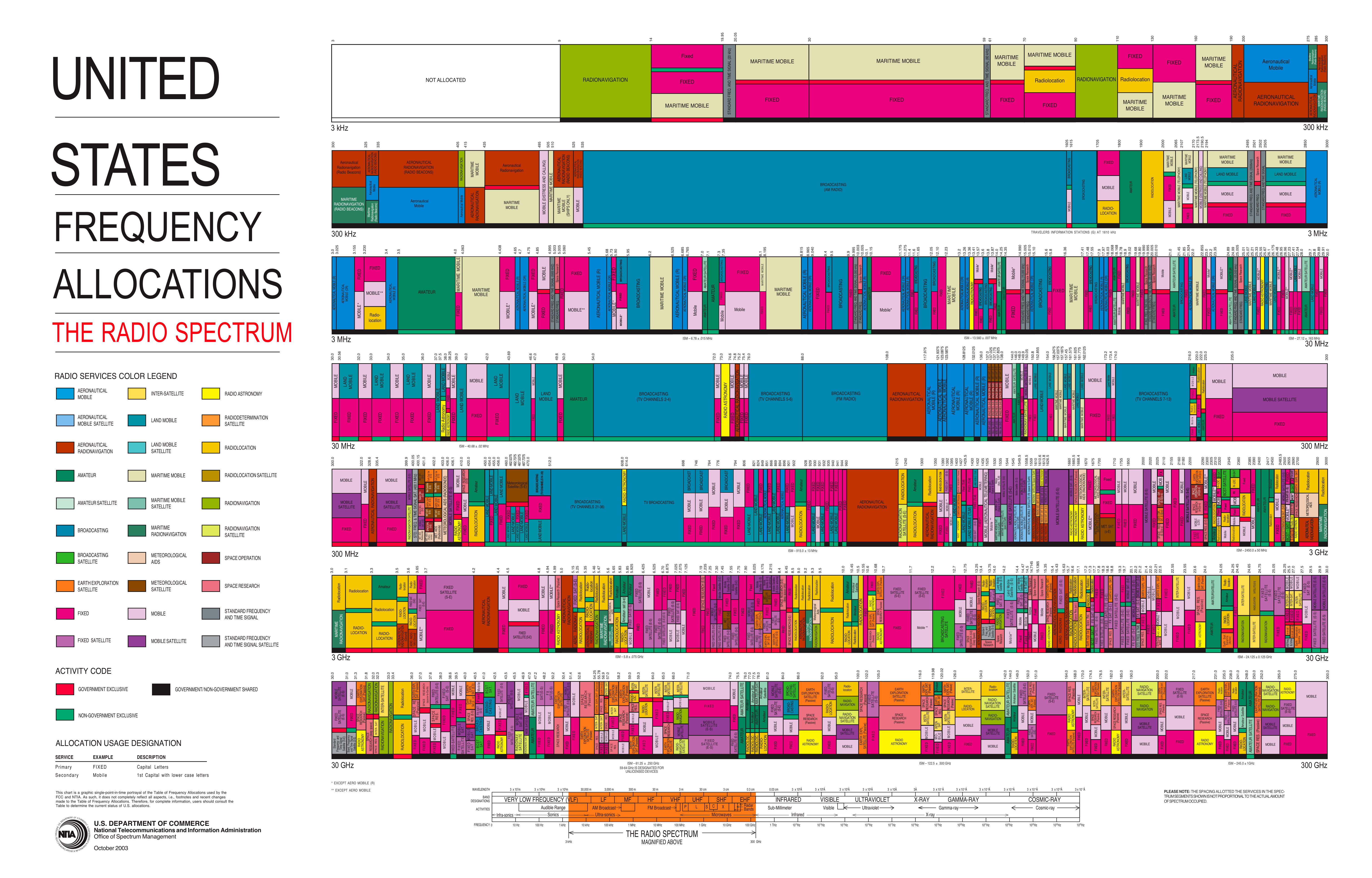 This is a chart of the radio spectrum and which frequencies are used for which purposes in the United States as of October 2003.